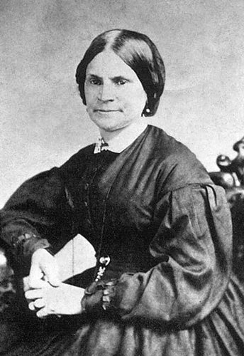 Lydia Hamilton Smith (1815 - 1884) , photo likely before 1868. Housekeper, confidant and purported common law wife of abolitionist Congressman Thaddeus Stevens. She managed his homes and businesses in Lancaster, PA and Washington, D.C. and served as his hostess. She was of mixed race ("quadroon")